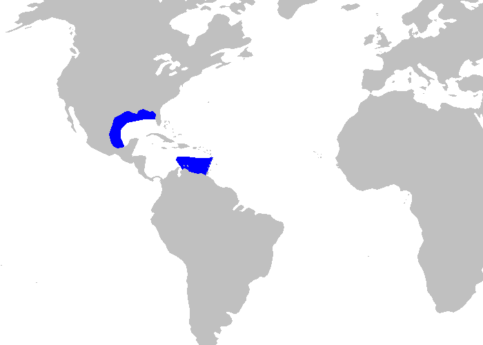 Distribution map for Oxynotus caribbaeus